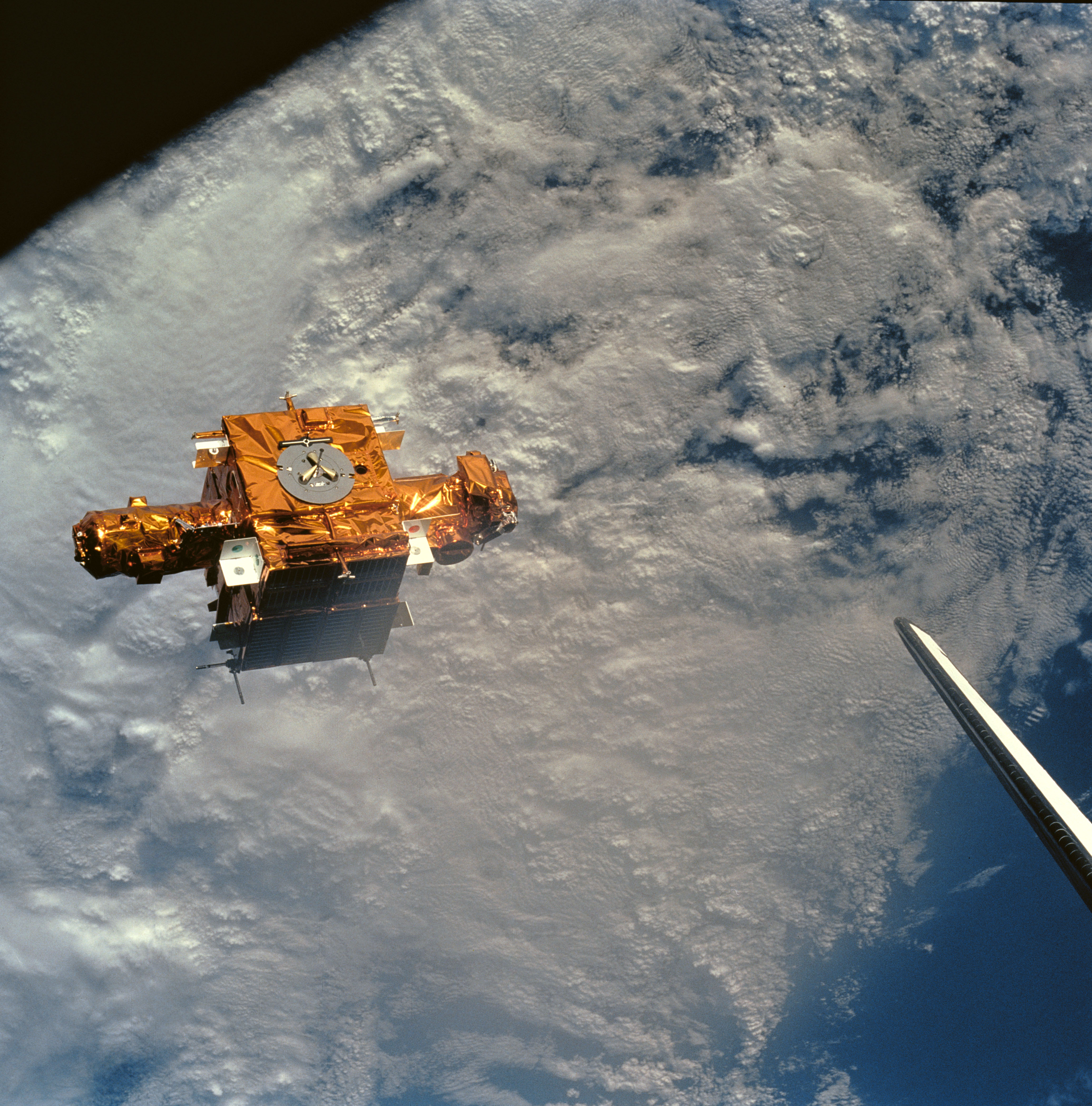 SPARTAN-201 while free-flying on STS-54. During STS-56, the Shuttle Pointed Autonomous Research Tool for Astronomy 201 (SPARTAN-201), a freeflying payload, is captured as it orbits above the Earth. Backdropped against heavy cloud cover over the Mediterranean Sea, the SPARTAN-201 was photographed by the crewmembers aboard Discovery, Orbiter Vehicle (OV) 103. SPARTAN-201 was later captured by OV-103's remote manipulator system (RMS) and returned to Earth with the astronaut crew. Note the tip of OV-103's vertical stabilizer (tail) at the frame's edge.